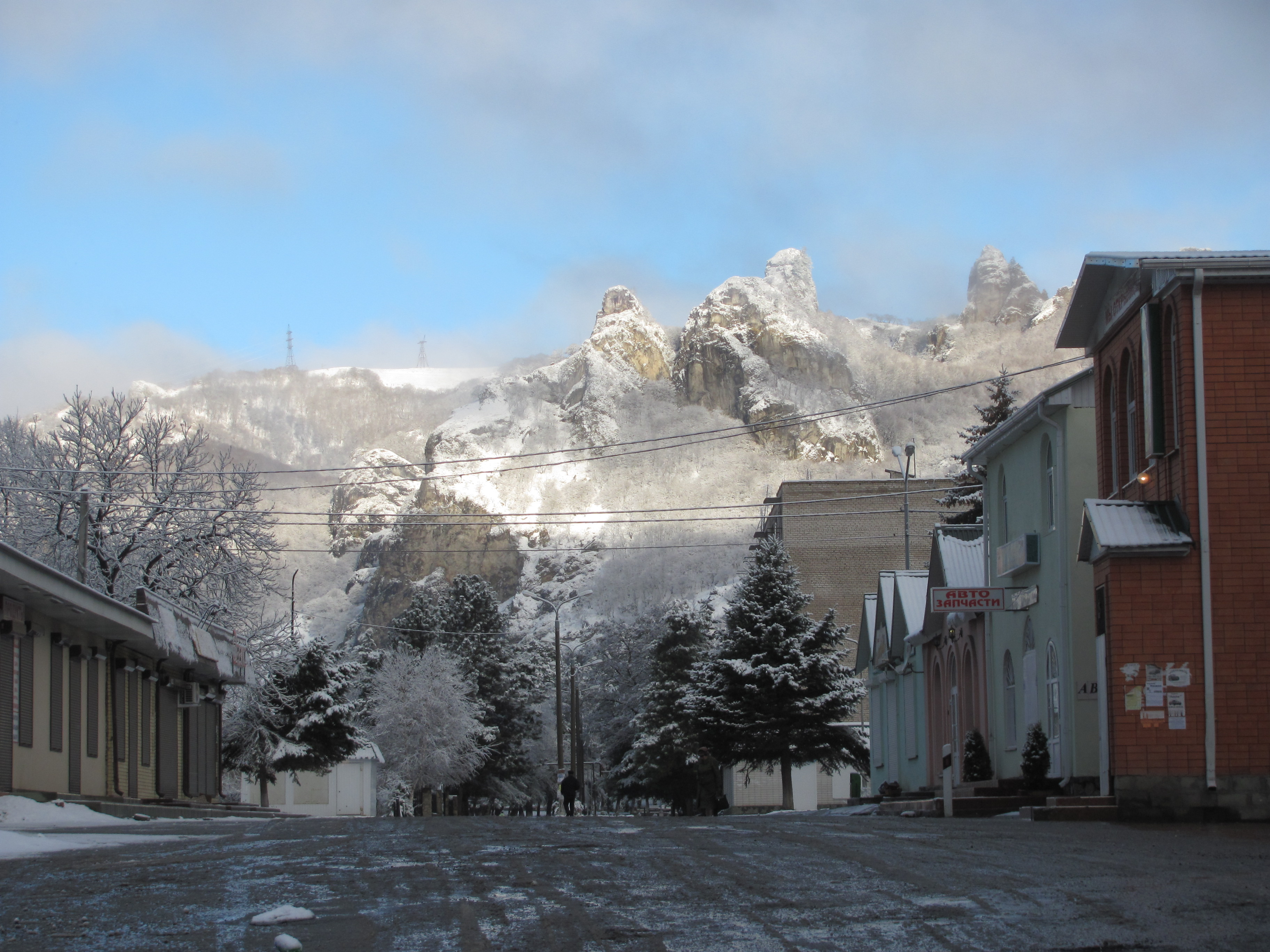 Street of Karachayevsk, Karachay-Cherkessia